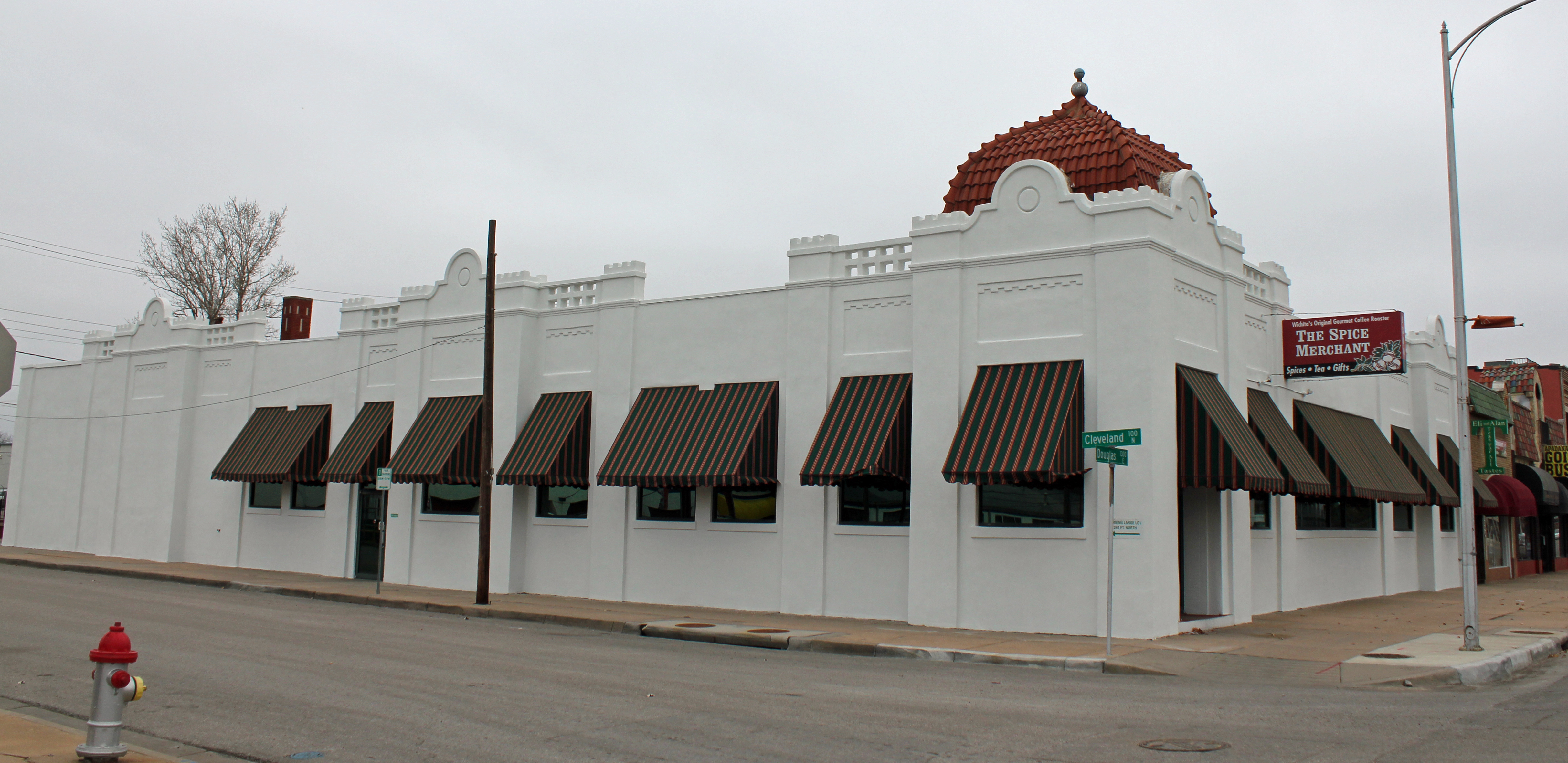 The Mentholatum Company Building, located at 1300 East Douglas in Wichita, Kansas. The property is listed on the National Register of Historic Places.